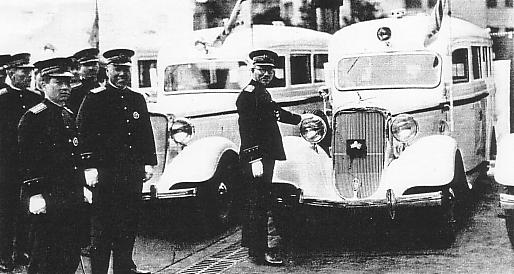 TMPD(Tokyo Metropolitan Police Department) Ambulance